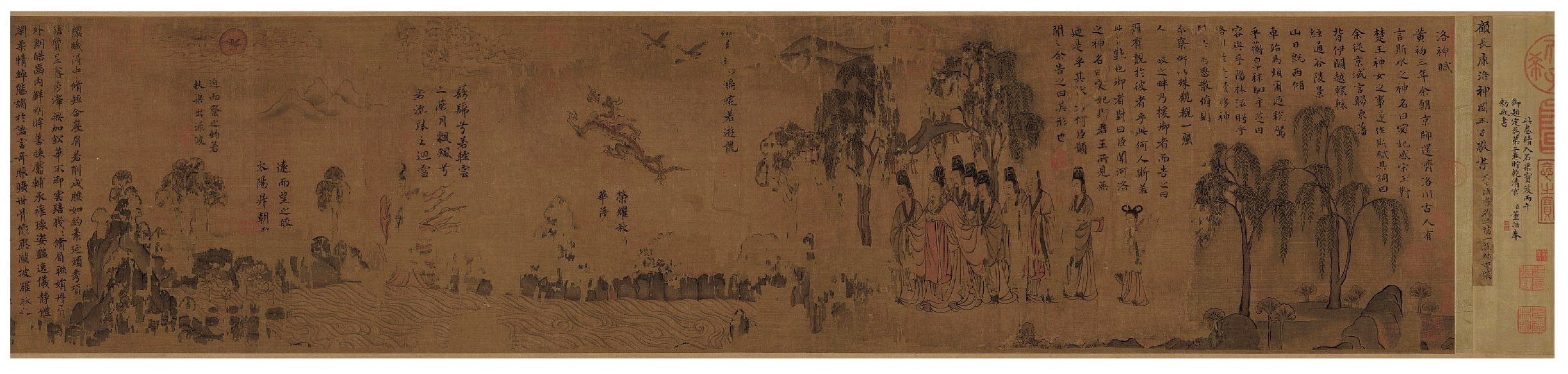 Gu Kaizhi. Nymph of the Luo River. (section) Southern Song Copy. Liaoning Provincial Museum.